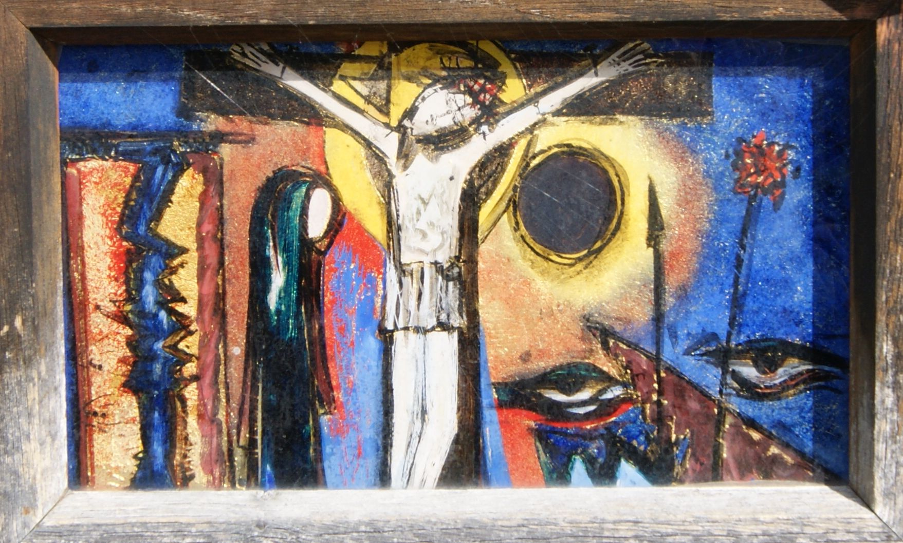 Stations of the Cross station No. XII for the Theresienkapelle in Schwarzenberg (Vorarlberg, Austria). Created by Gerhard Winkler (artist, * 1939).